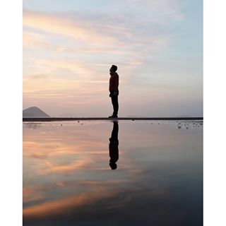 snap in mirror of the sky